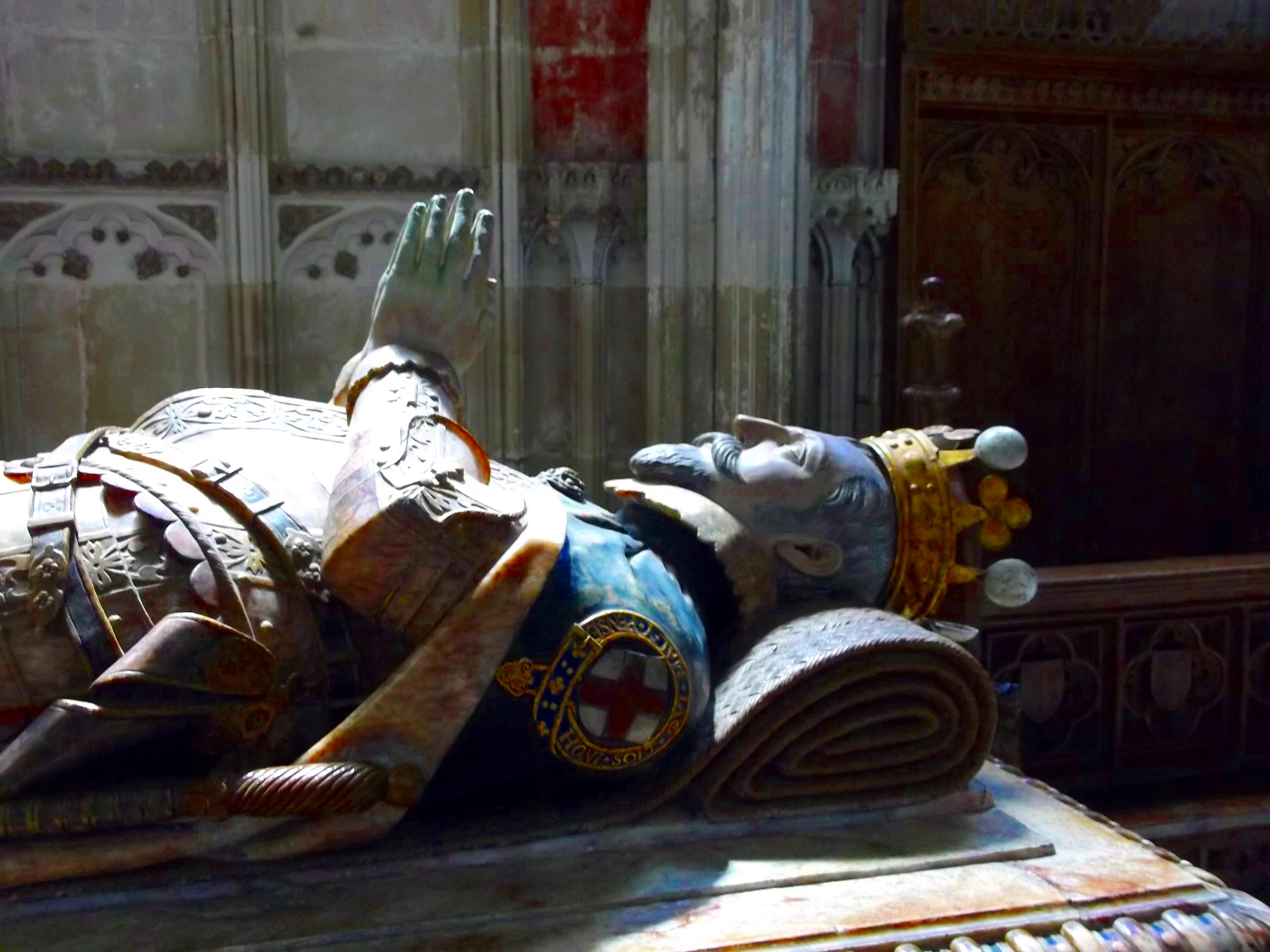 Effigy of Ambose Dudley on jis tomb in Collegiate Church of St Mary, Warwick.